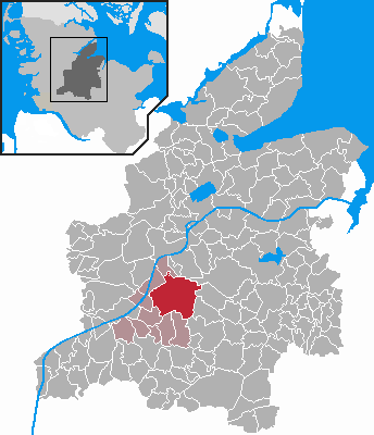 Locator maps of municipalities in Schleswig-Holstein - District Rendsburg-Eckernförde